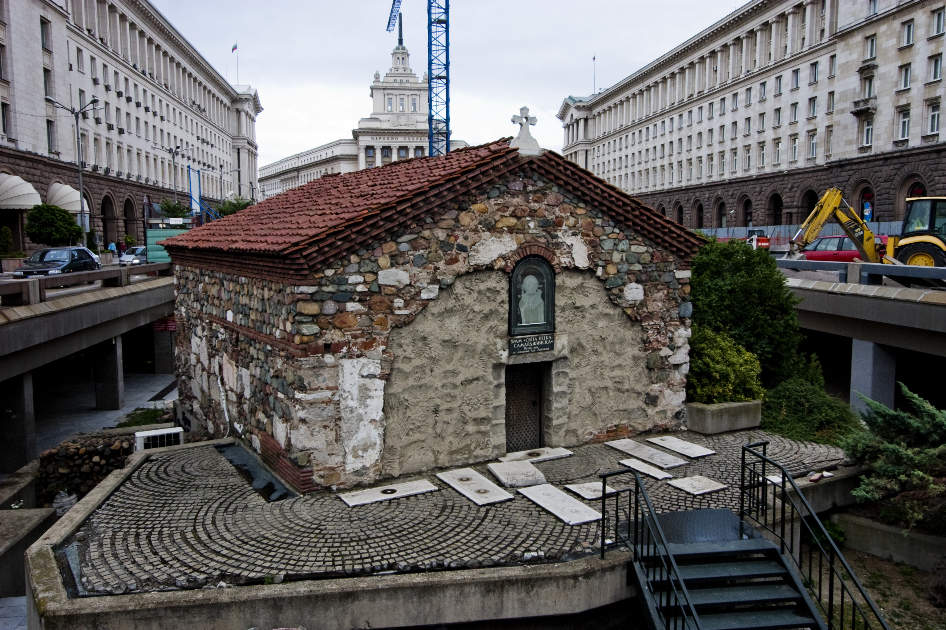 The Church of St Petka of the Saddlers (Църква „Света Петка Самарджийска“ or St. Petka Samardjiiska) is a medieval Bulgarian Orthodox church in Sofia, the capital of Bulgaria. It is located in a semi-submerged shopping mall, and can be reached via the Serdika metro station.